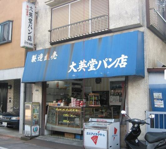 magome daieido bakery 2013